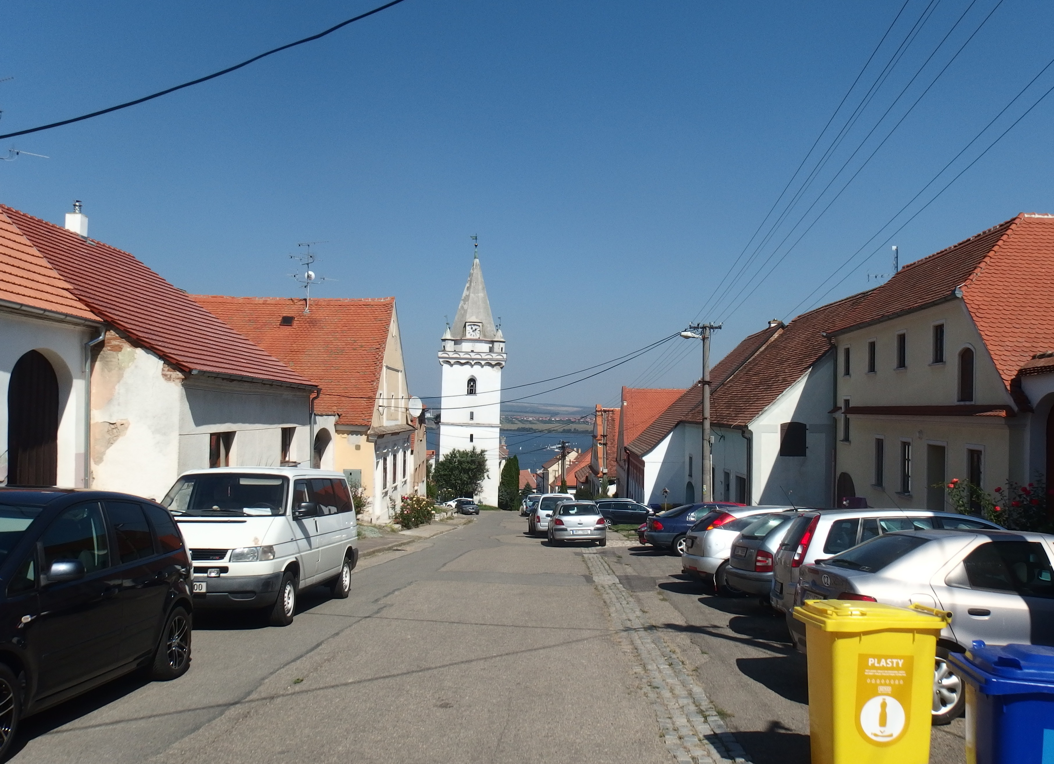 Pavlov, Břeclav District, Czech Republic.